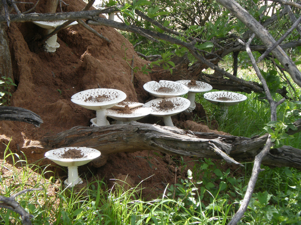 The mushroom Termitomyces reticulatus. Photographed in Namibia.